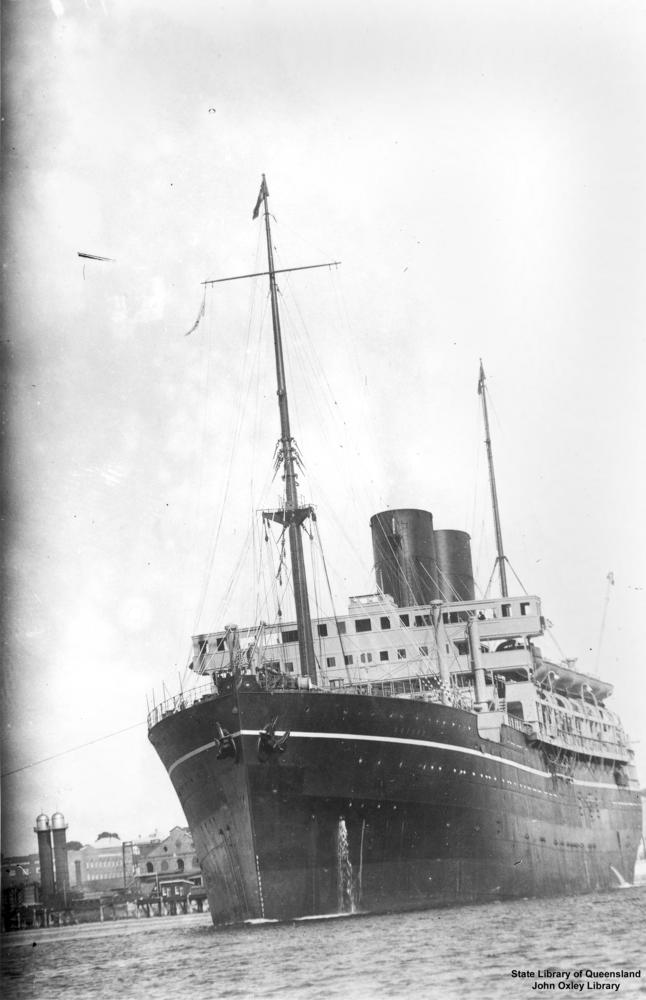 The P&O liner Cathay in Brisbane, 27 May 1933